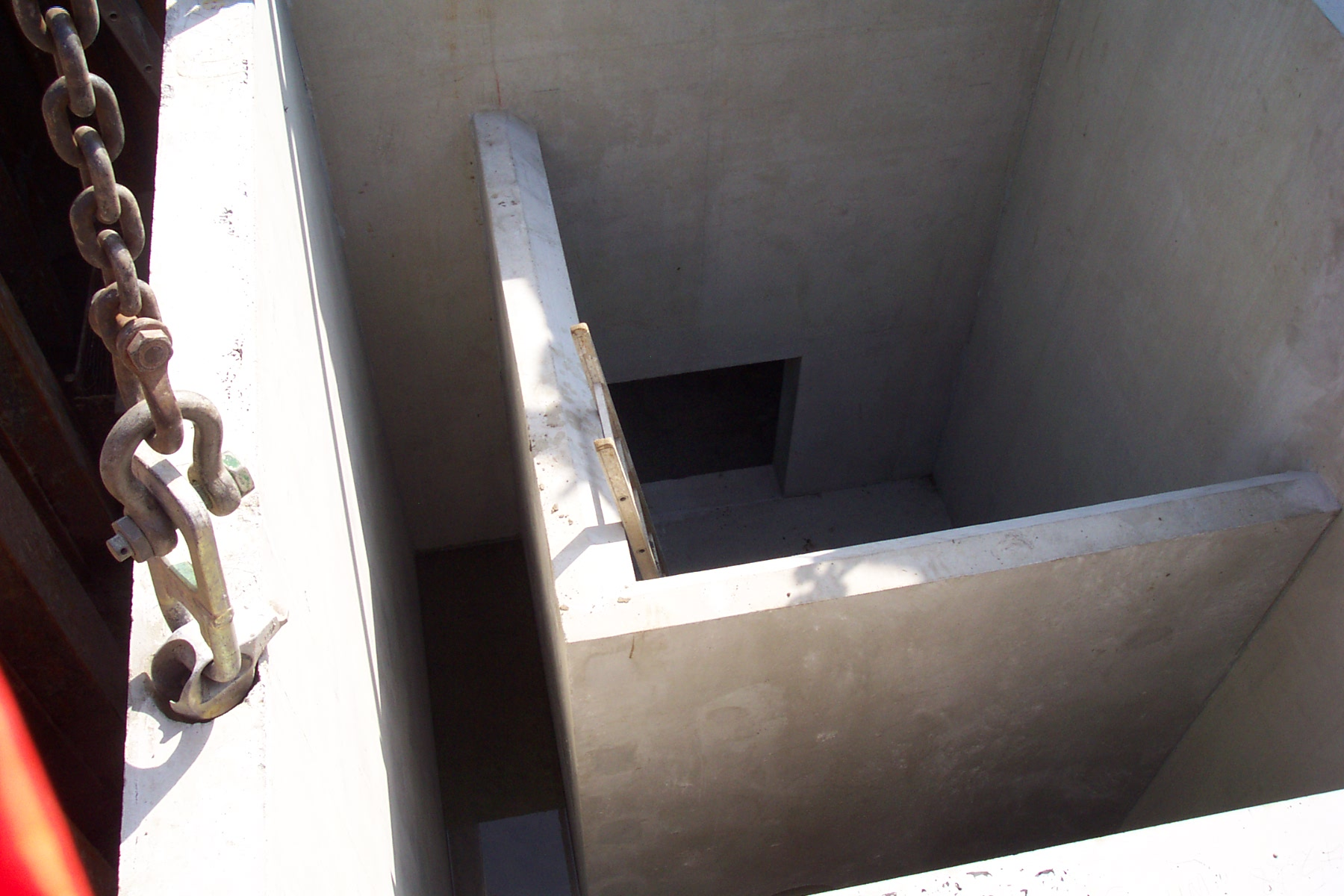 Sewerage overflow during construction